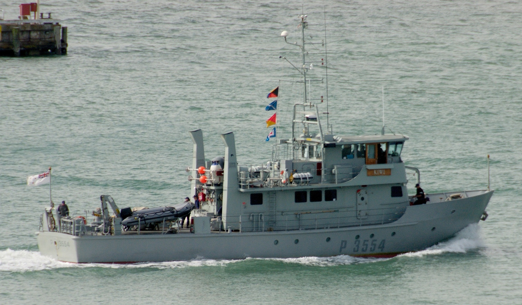 HMNZS Kiwi at the Devonport Naval Base in Auckland